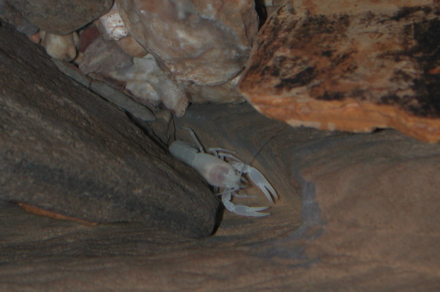 Orconectes australis from the Appalachians.